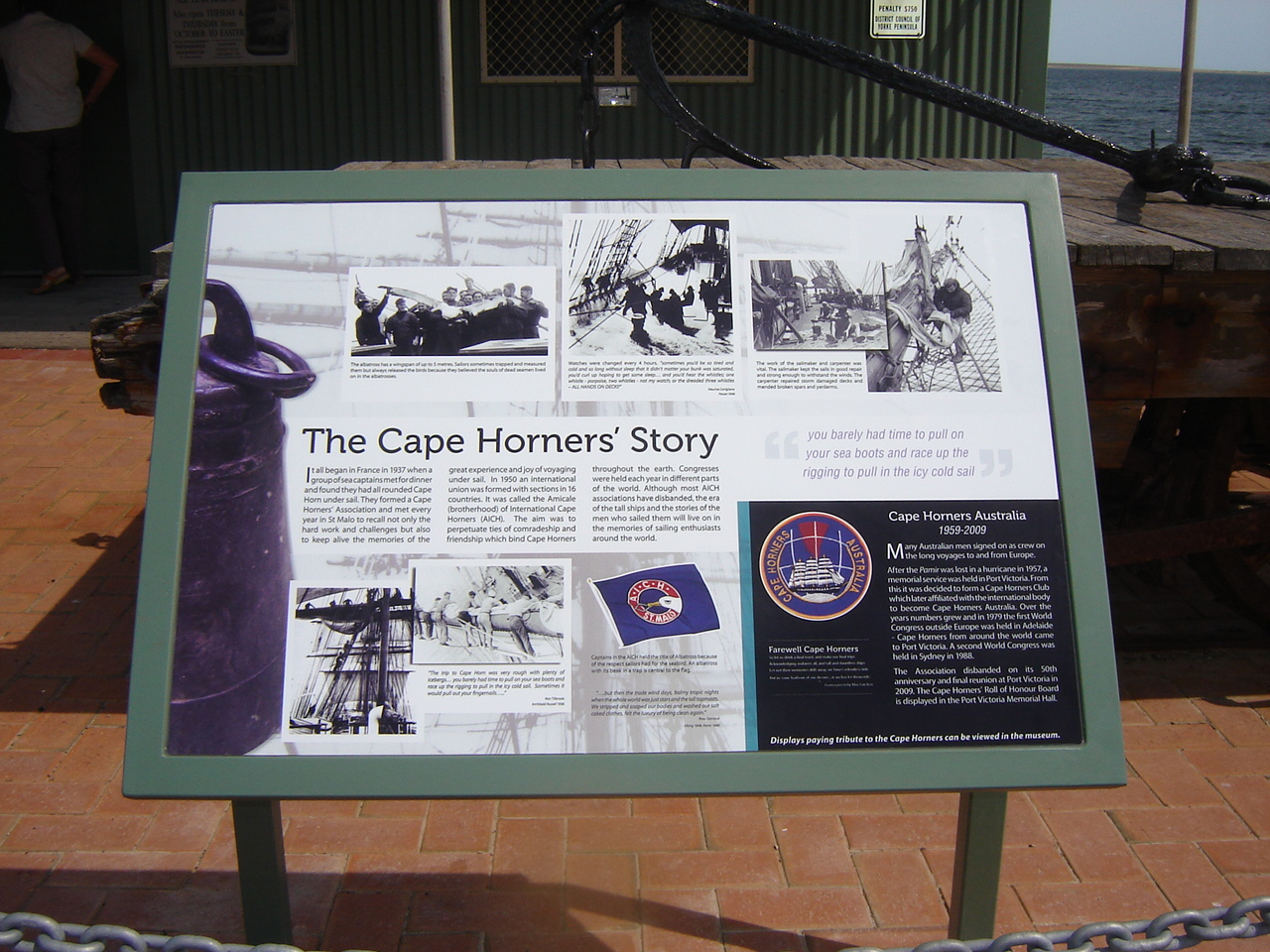 a sign outside the Port Victoria Maritime Museum paying tribute to the Cape Horners